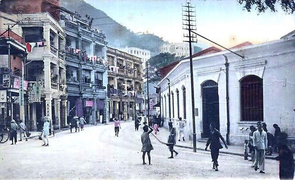 Queen's Road East in 1910, the 1st generation of Wai Chai Market is on the right side, while the Tong Lau blocks are on the left side